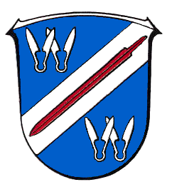 Coat of Arms of Wallau, part of Hofheim am Taunus